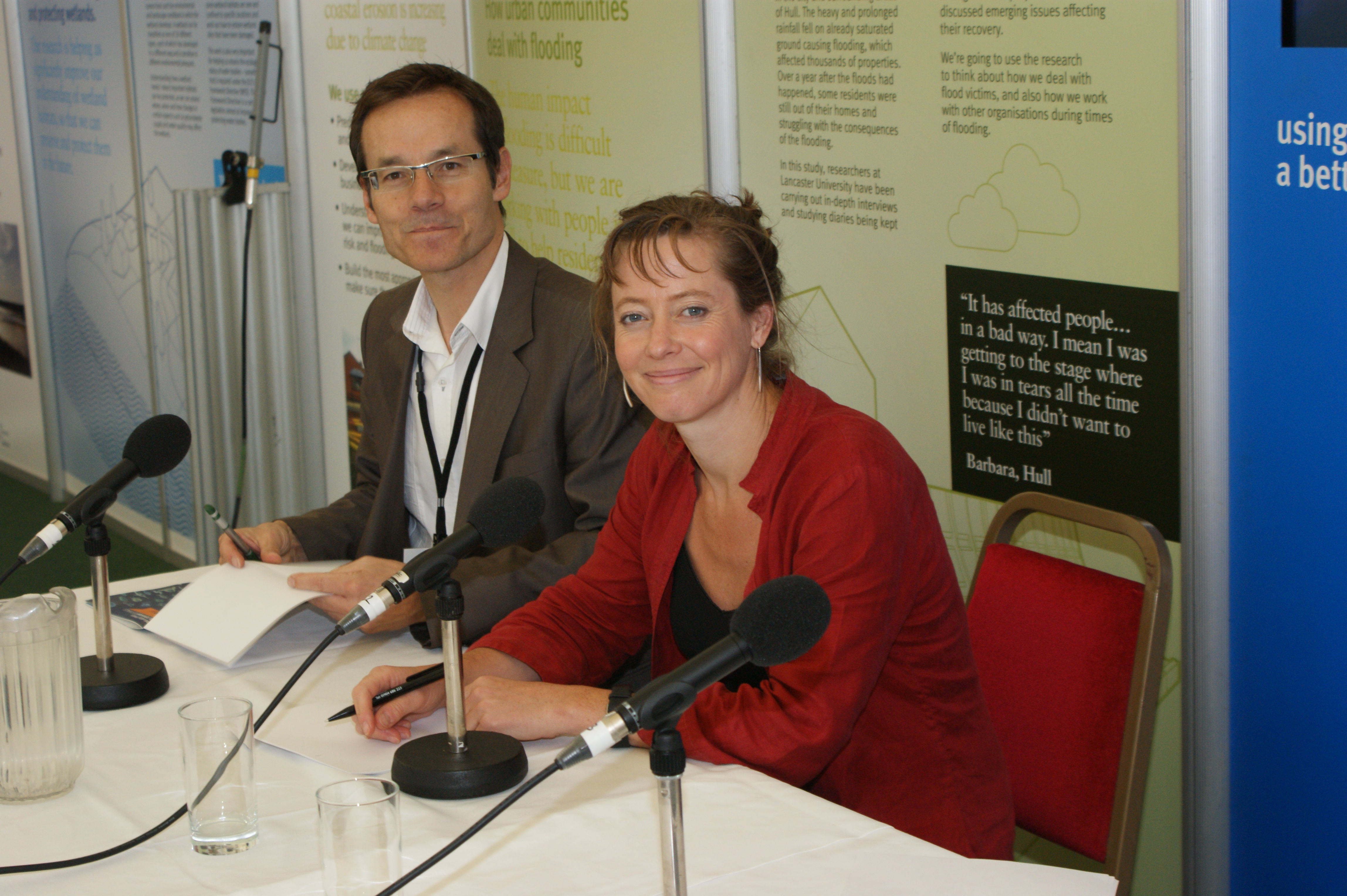 Photograph taken at the Cheltenham Science Festival 2009 showing Festival Directors Mark Lythgoe (l) and Kathy Sykes (r)